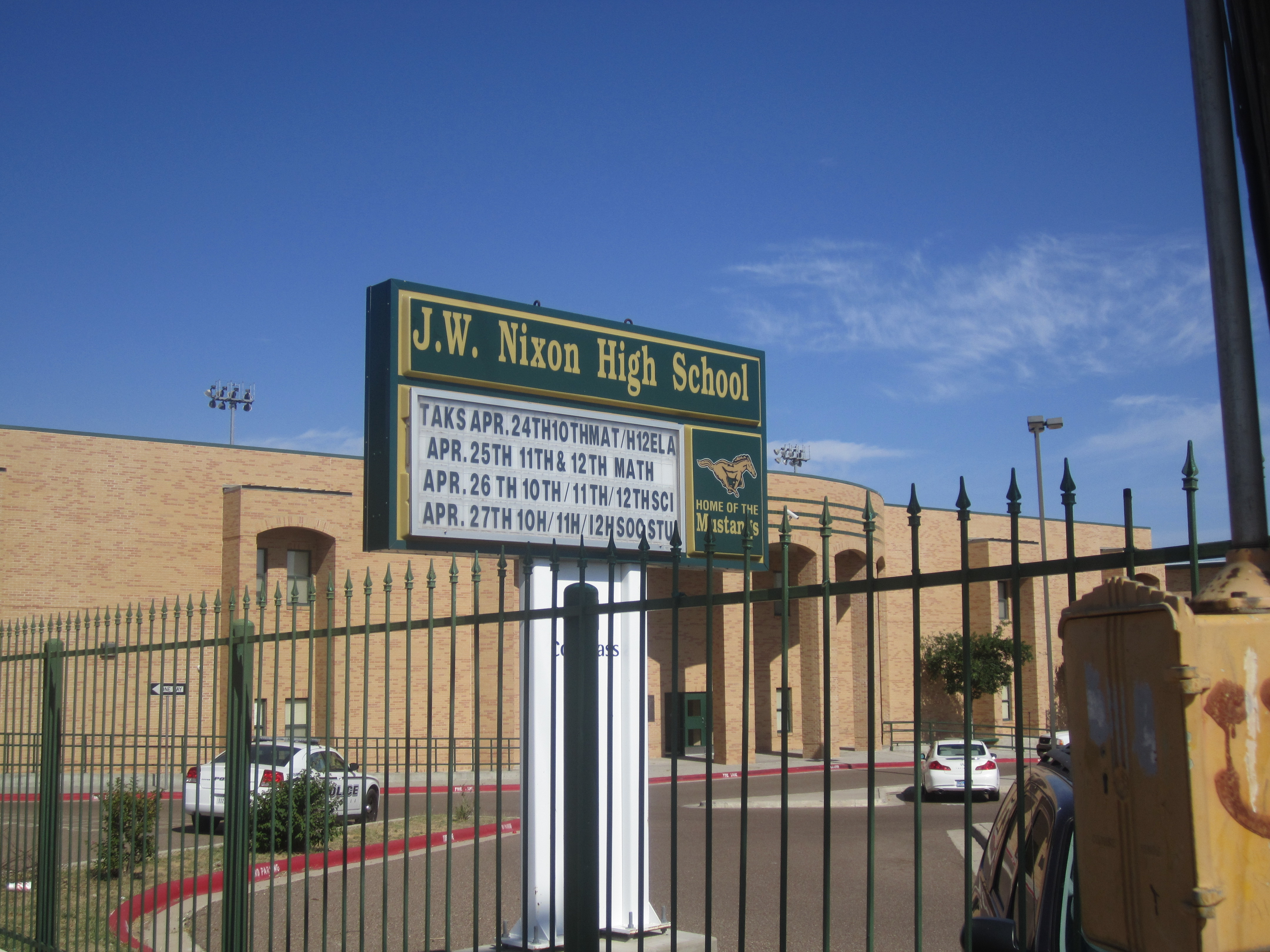 I took photo with Canon camera in Laredo, TX.